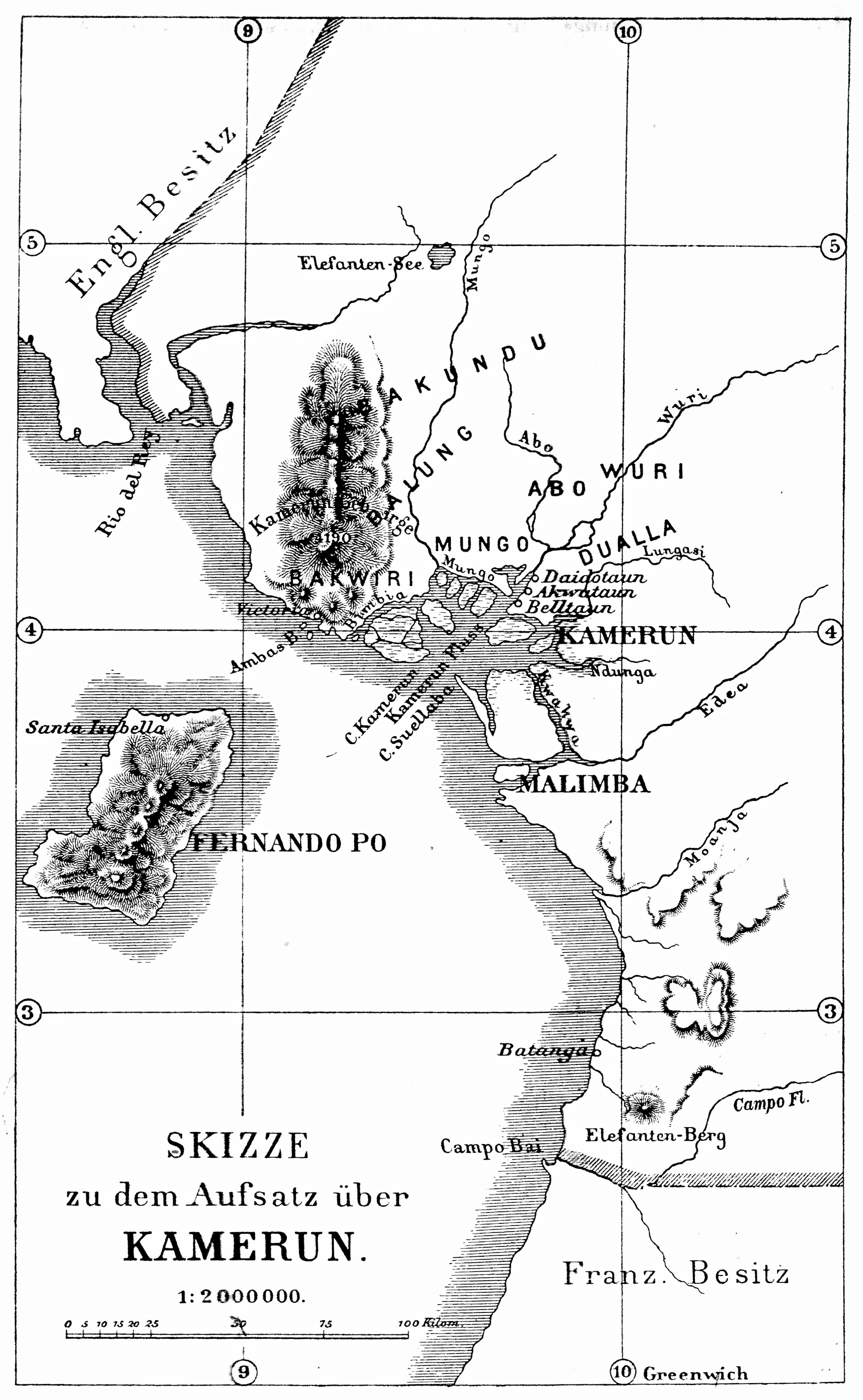 The coast of the German colony Cameroon with Fernando Poo (latter island = contemporary Bioko; capital Santa Isabella = contemporary Malabo)